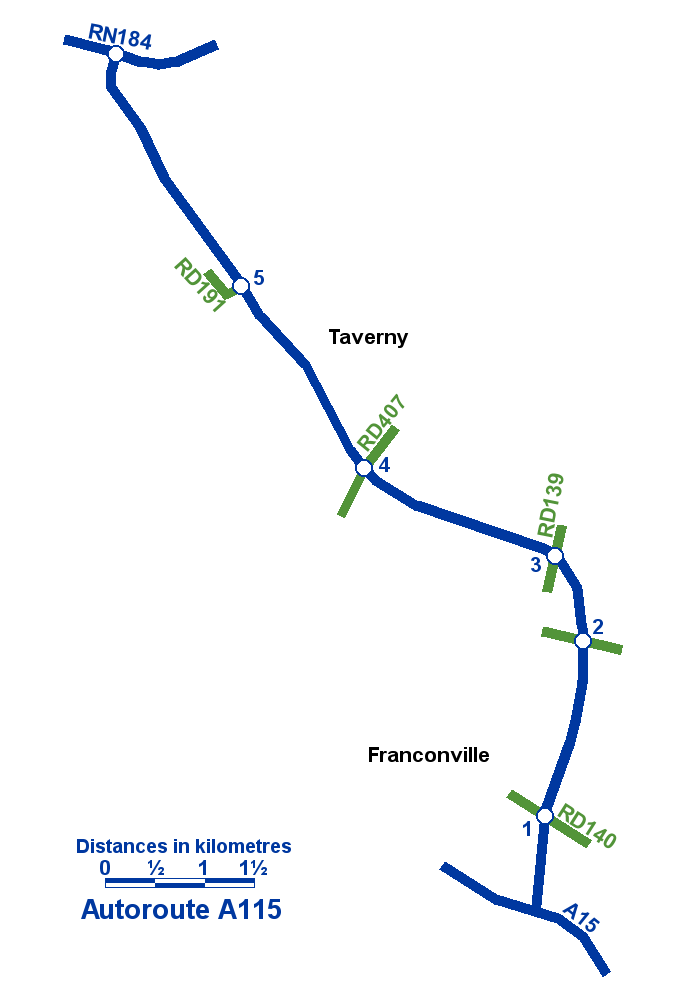 Author: Gregory Deryckère Source: Own work Date: 5th March 2007